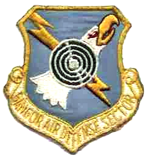 Emblem of the Bangor Air Defense Sector (ADC)